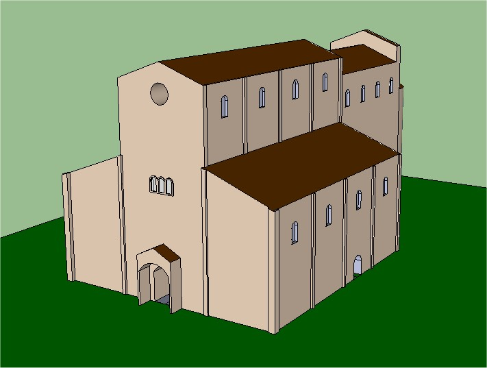 Supposed appearance of the abbey in Leno in the XII th century. Source: Andrea Breda, L’indagine archeologica nel sito dell’abbazia di S. Benedetto di Leno e Andrea Breda, Leno: monastero e territorio. Note archeologiche preliminari